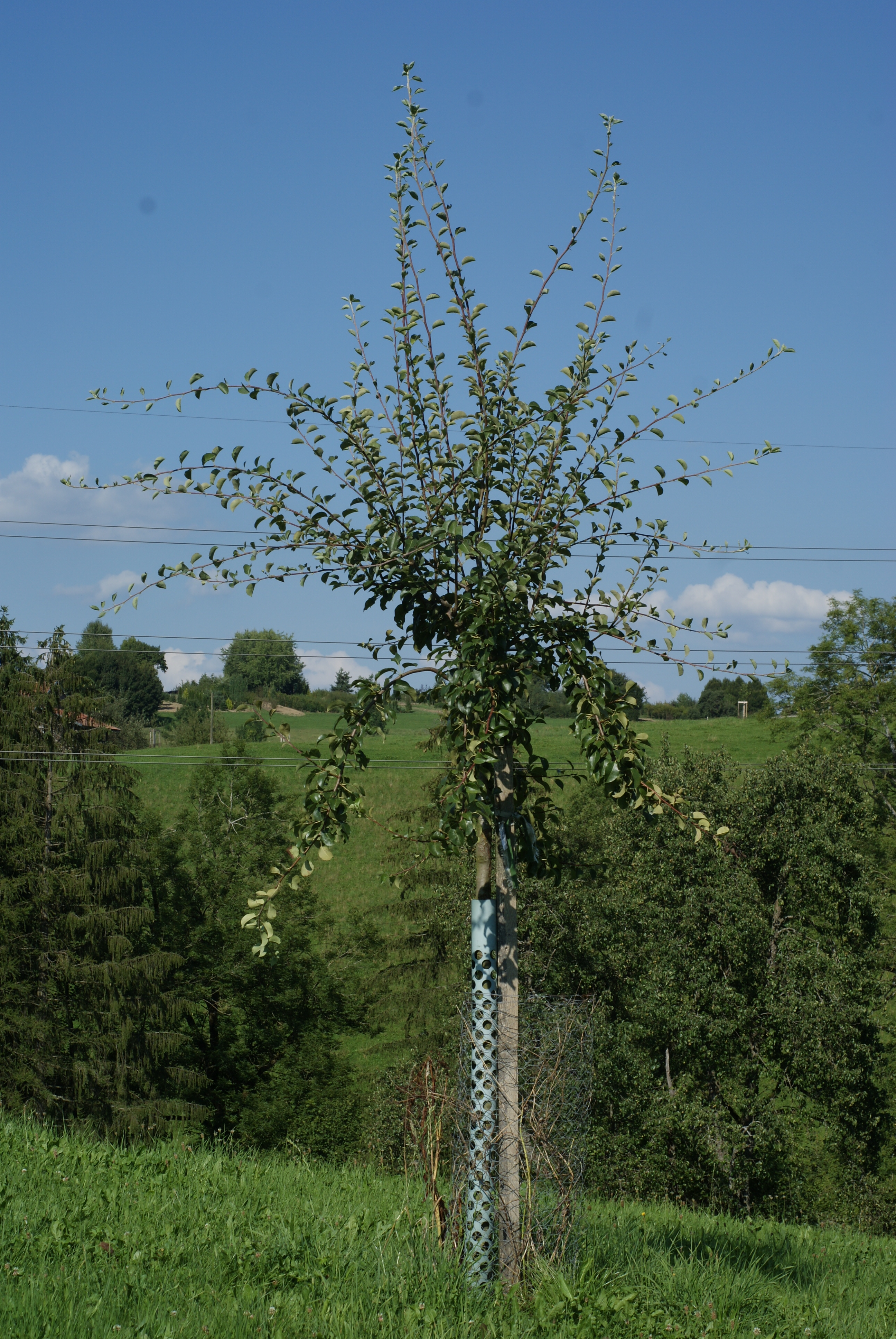 Young standard of the Swiss pear variety "Theilersbirne". The stock is the pear variety "Schweizer Wasserbirne".